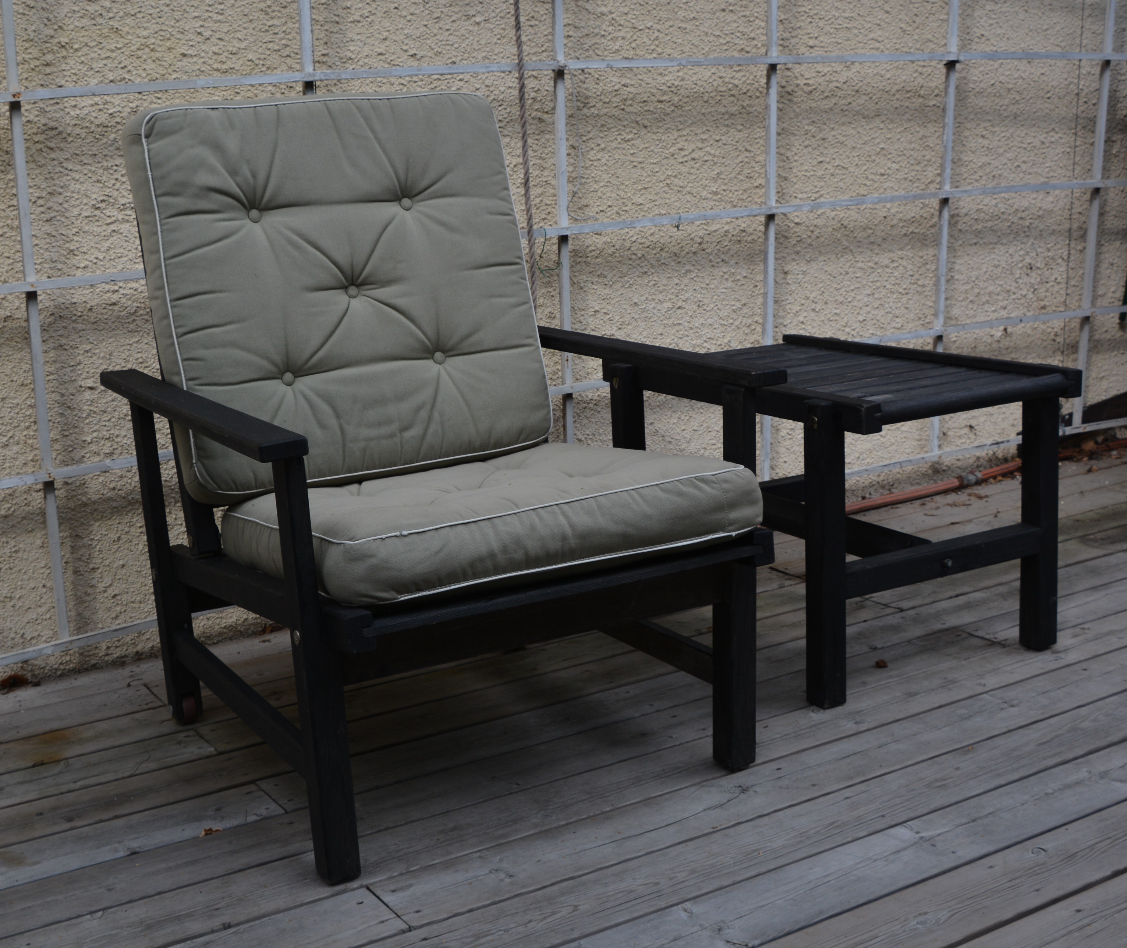 Stol och bord, Fri Form, Elsa Stackelberg